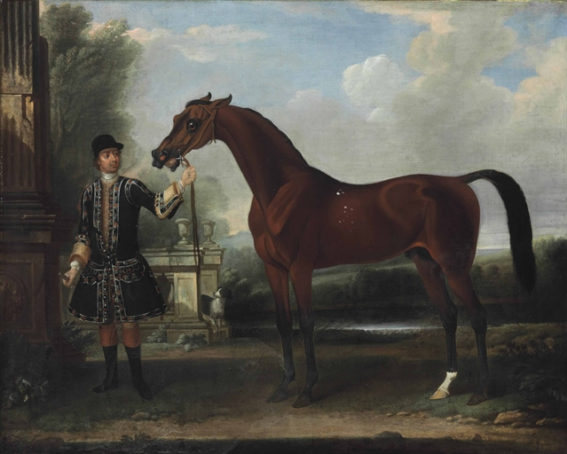 Bay Bolton, foaled 1705, held by a groom, in a parkland setting, oil on canvas, by Thomas Spencer (1700-1763), 40¼ x 50¼ inches. Christie's South Kensington, 05 Jun 2013, lot 107. oil on canvas 40¼ x 50¼ in.